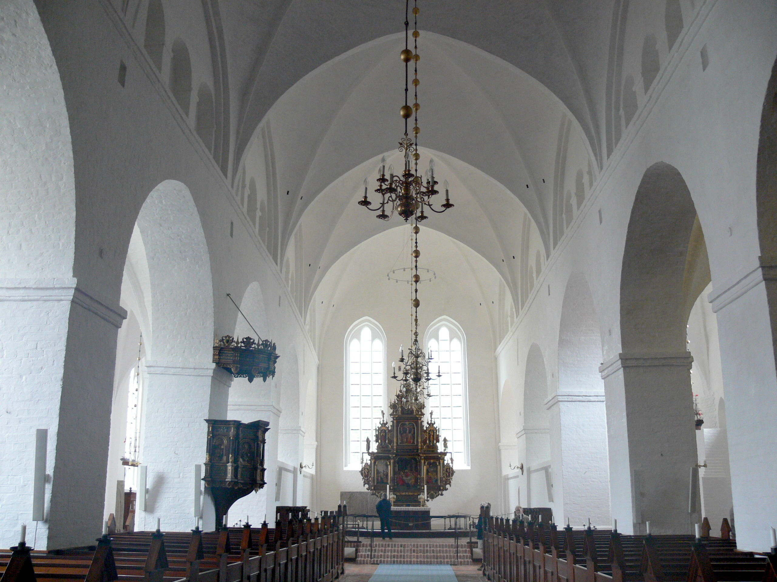 Ribe. St.Catherin´s church - Interior